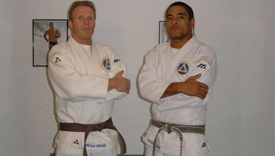 Rickson Gracie and Harold Harder